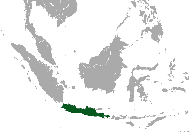 Thick-tailed Shrew (Crocidura brunnea) range